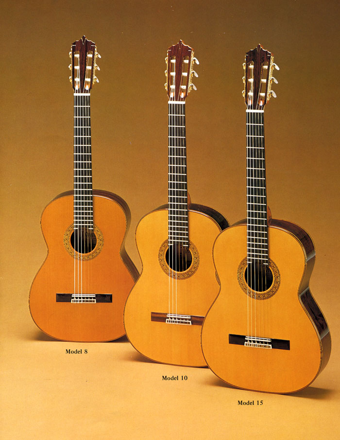 Overview of Juan Orozco´s guitar models